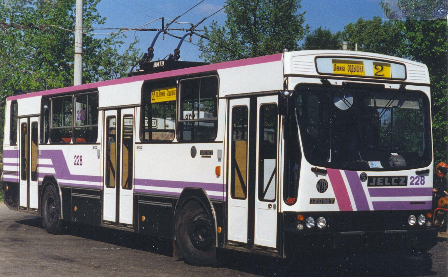 Nordtroll-120MTr trolleybus (#228, built 1997, Jelcz 120MT body) on line 2 in Vladimir, Russia.